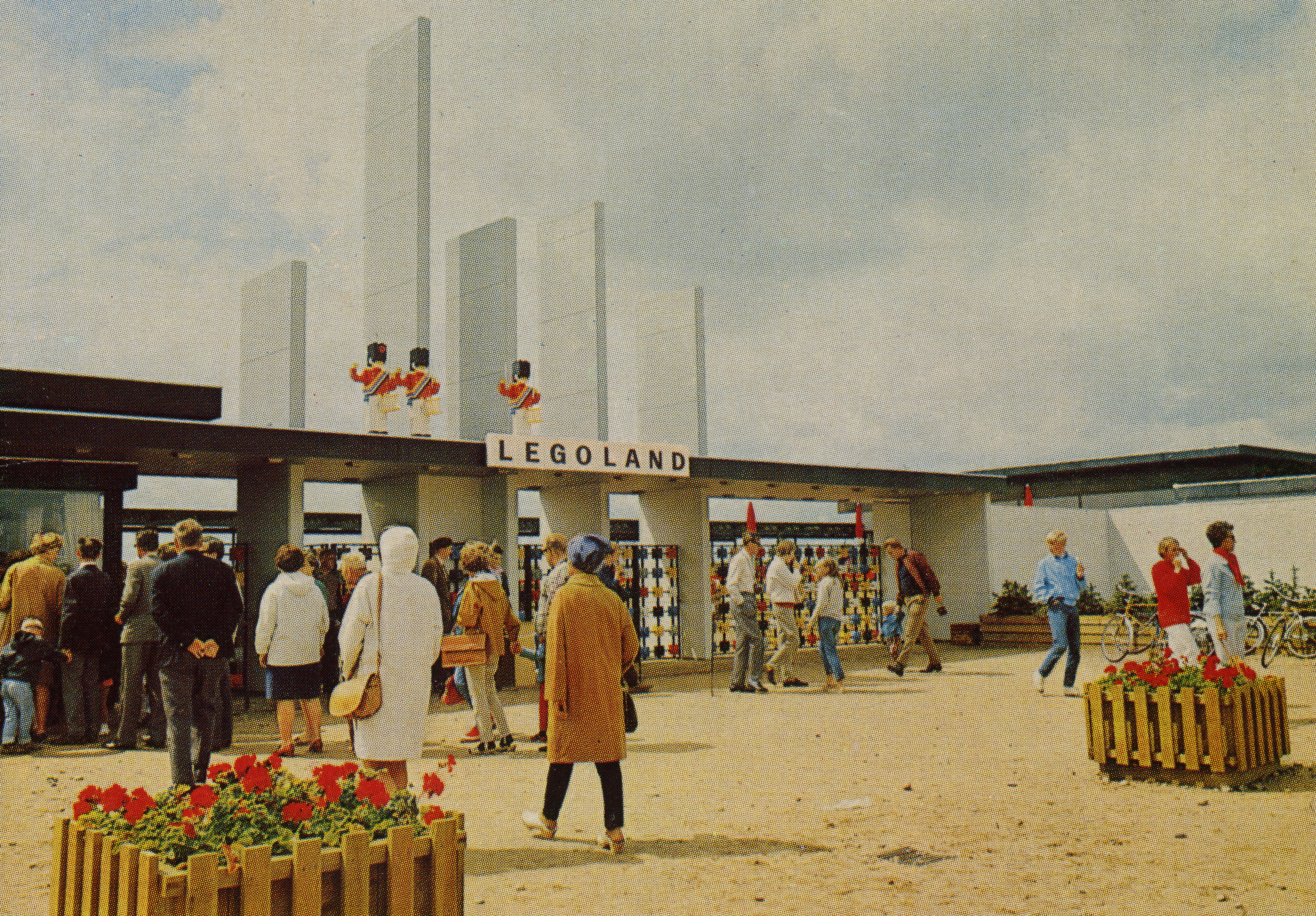 The main entrance of the amusement park Legoland Billund Resort in Denmark.